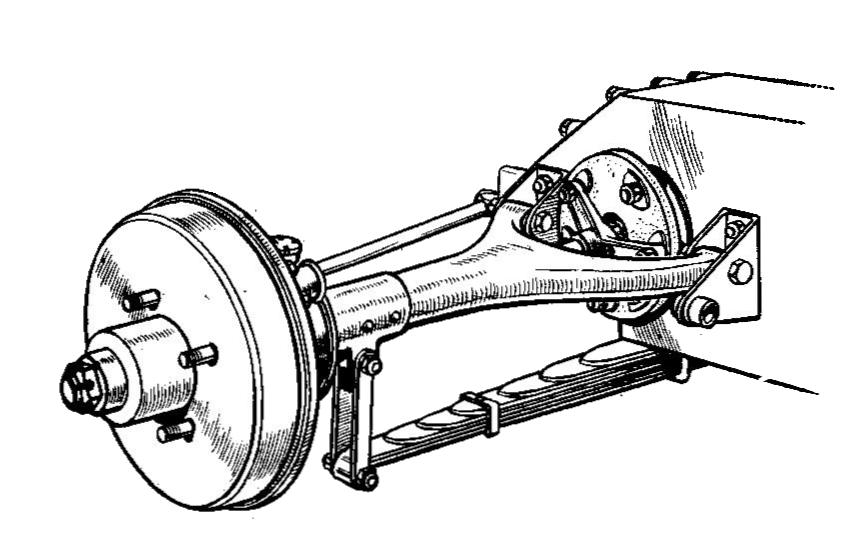 Derby front wheel drive swing axle (Autocar Handbook, 13th ed, 1935).jpg